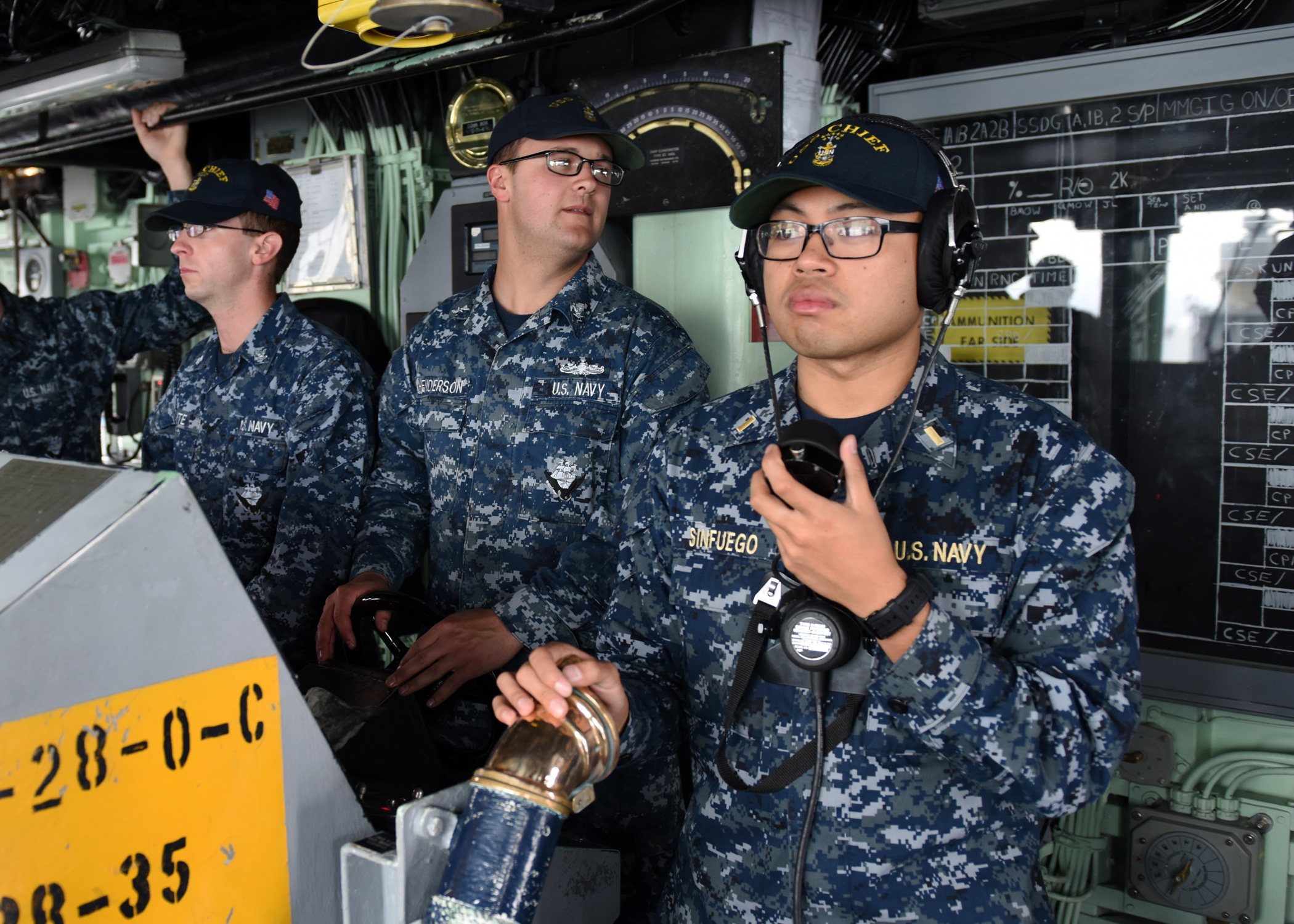 150405-N-AD372-211 WATERS SOUTH OF THE KOREAN PENINSULA, (April 5, 2015) Logistics Specialist 2nd Class Nicholas White, and Mineman 3rd Class Jeromy Henderson operate the ships control console while Ens. Allen Sinfuego mans the sound powered phone aboard the mine countermeasure ship USS Chief (MCM 14), during the ships sea and anchor detail. Chief is currently participating in Exercise Foal Eagle 2015, a series of annual training events that are defense-oriented and designed to increase readiness and maintain stability on the Korean Peninsula while strengthening the Republic of Korea - U.S. alliance and promoting regional peace and stability in the Indo-Asia-Pacific region. (U.S. Navy photo by Mass Communication Specialist 1st Class Abraham Essenmacher/Released)